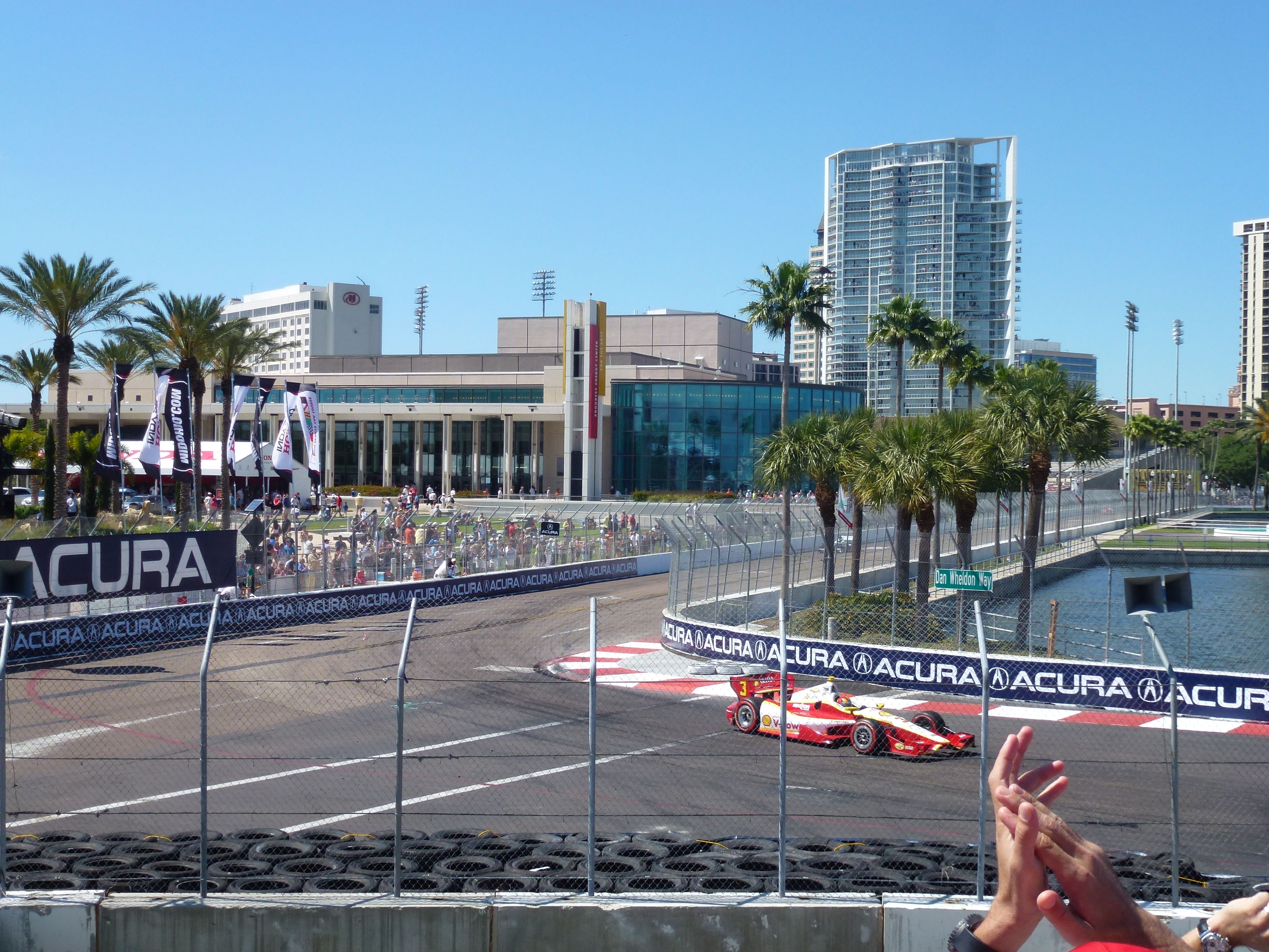 Helio Castroneves rounding corner 10 on the final lap of the 2012 Honda Grand Prix of St. Petersburg.